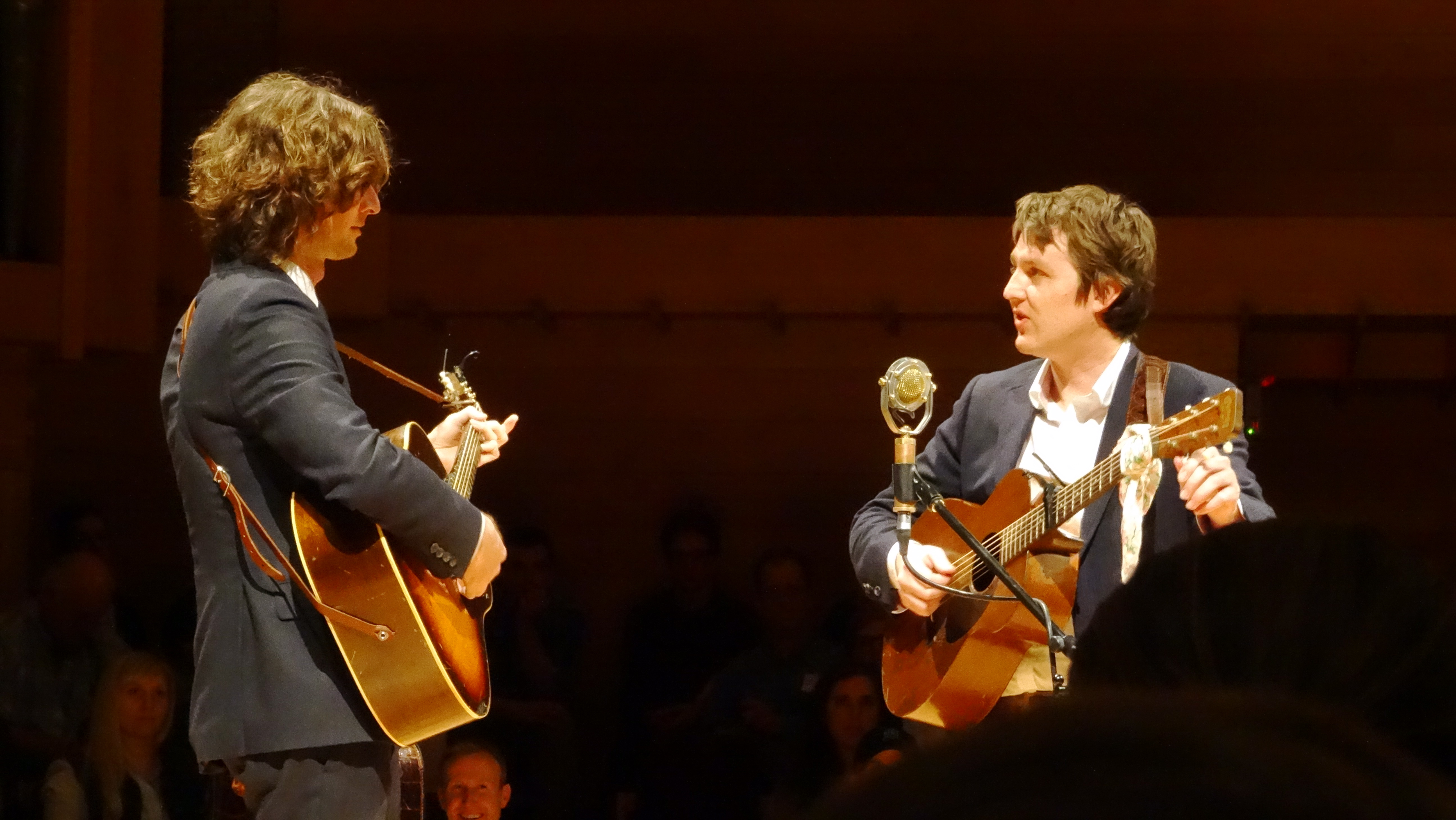 The Milk Carton Kids appearing at Calvin College in Grand Rapids, Michigan on May 7, 2014.